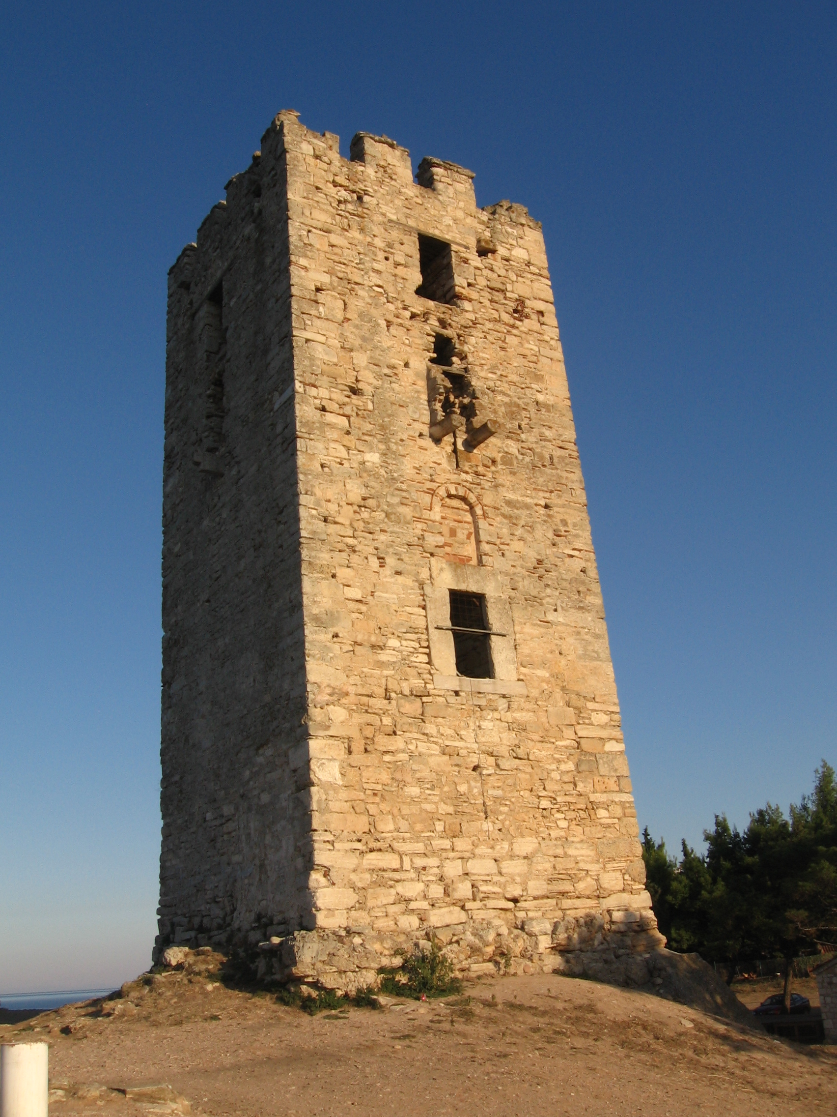 Byzantine tower at Nea Fokea